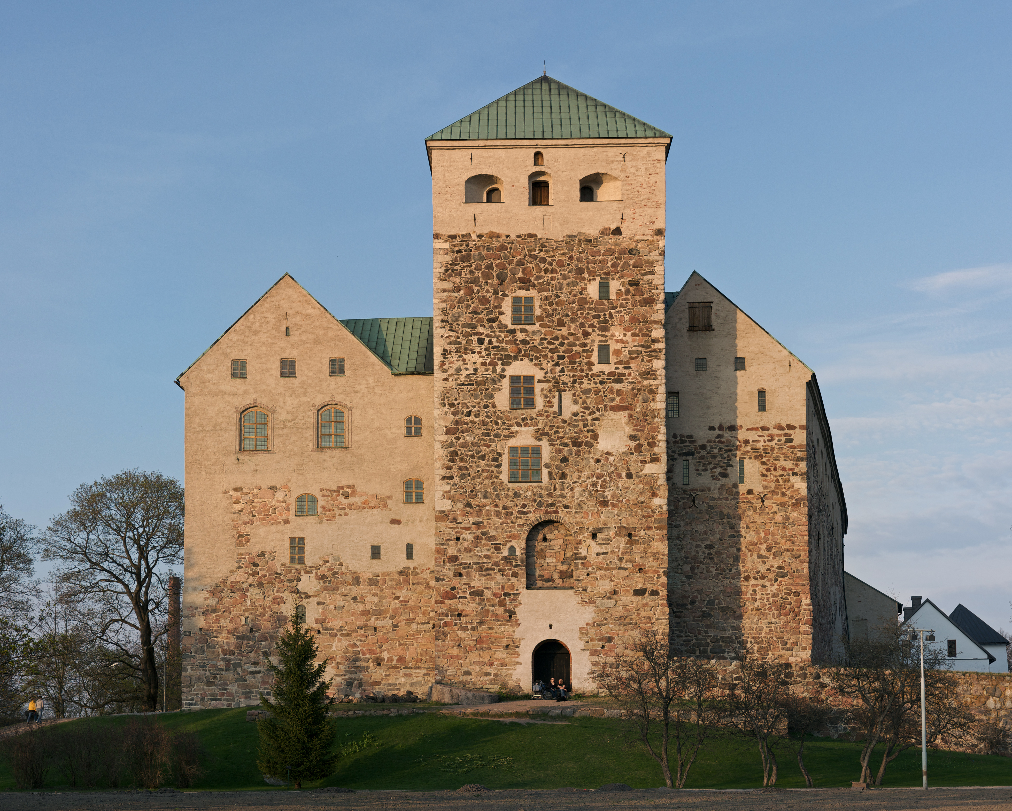 Turku Castle, dating from the 13th century, is the largest surviving medieval building in Finland, and one of the largest surviving medieval castles in Scandinavia.